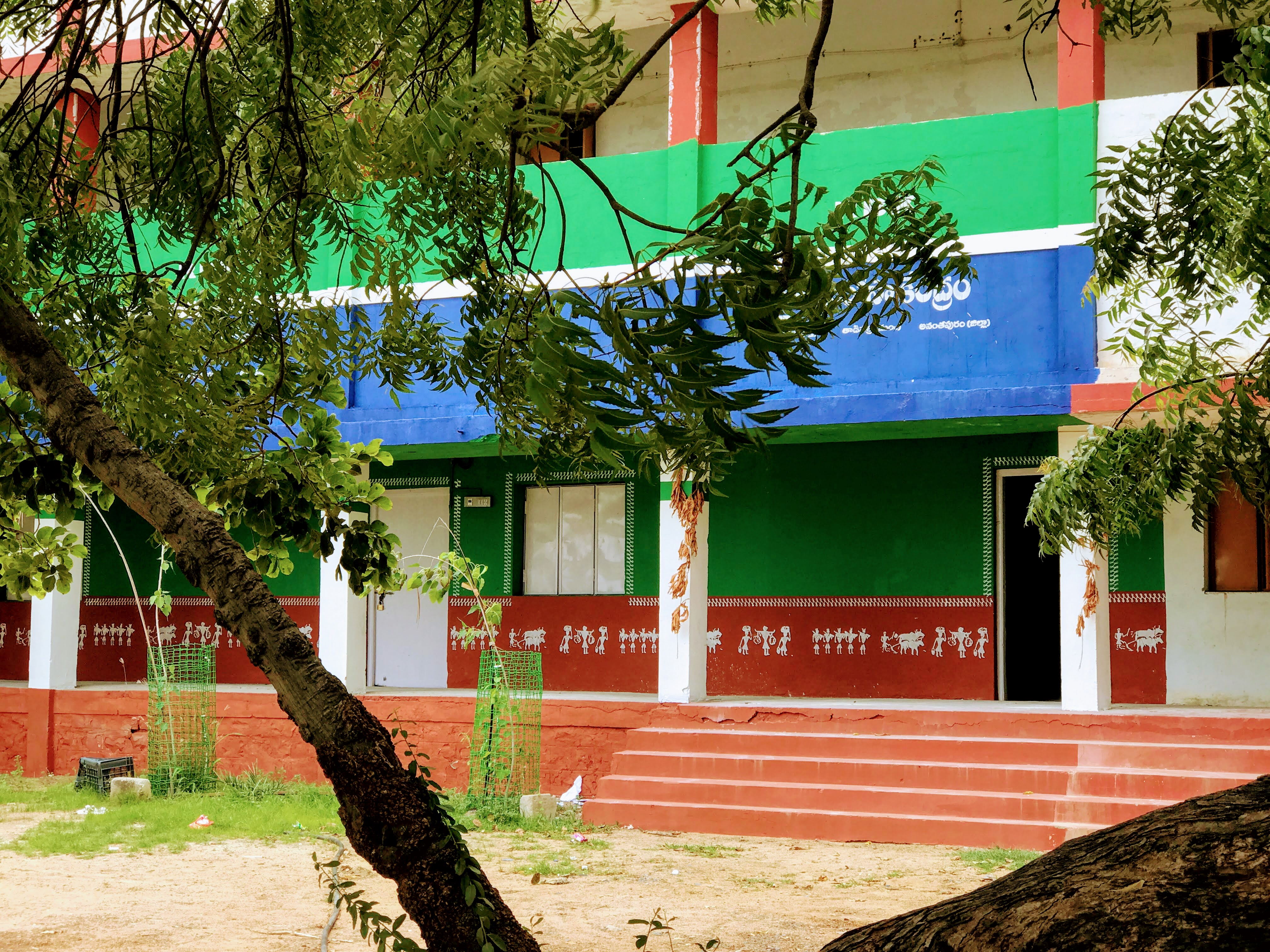 Tadipatri Sachivalaya - RBK Centre - Near Tadipatri Muncipal Office